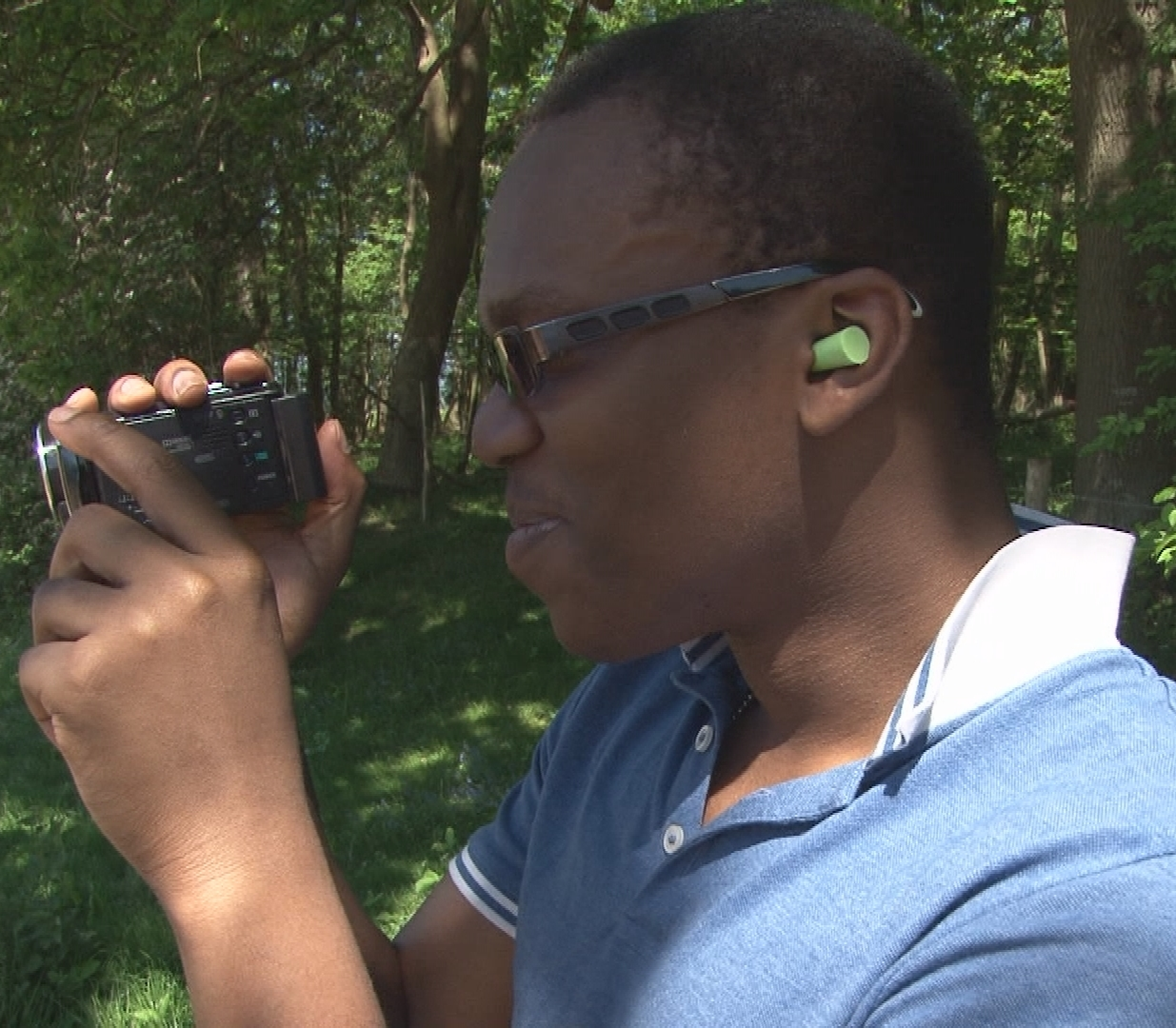 English YouTube personality KSIOlajidebt in 2012.